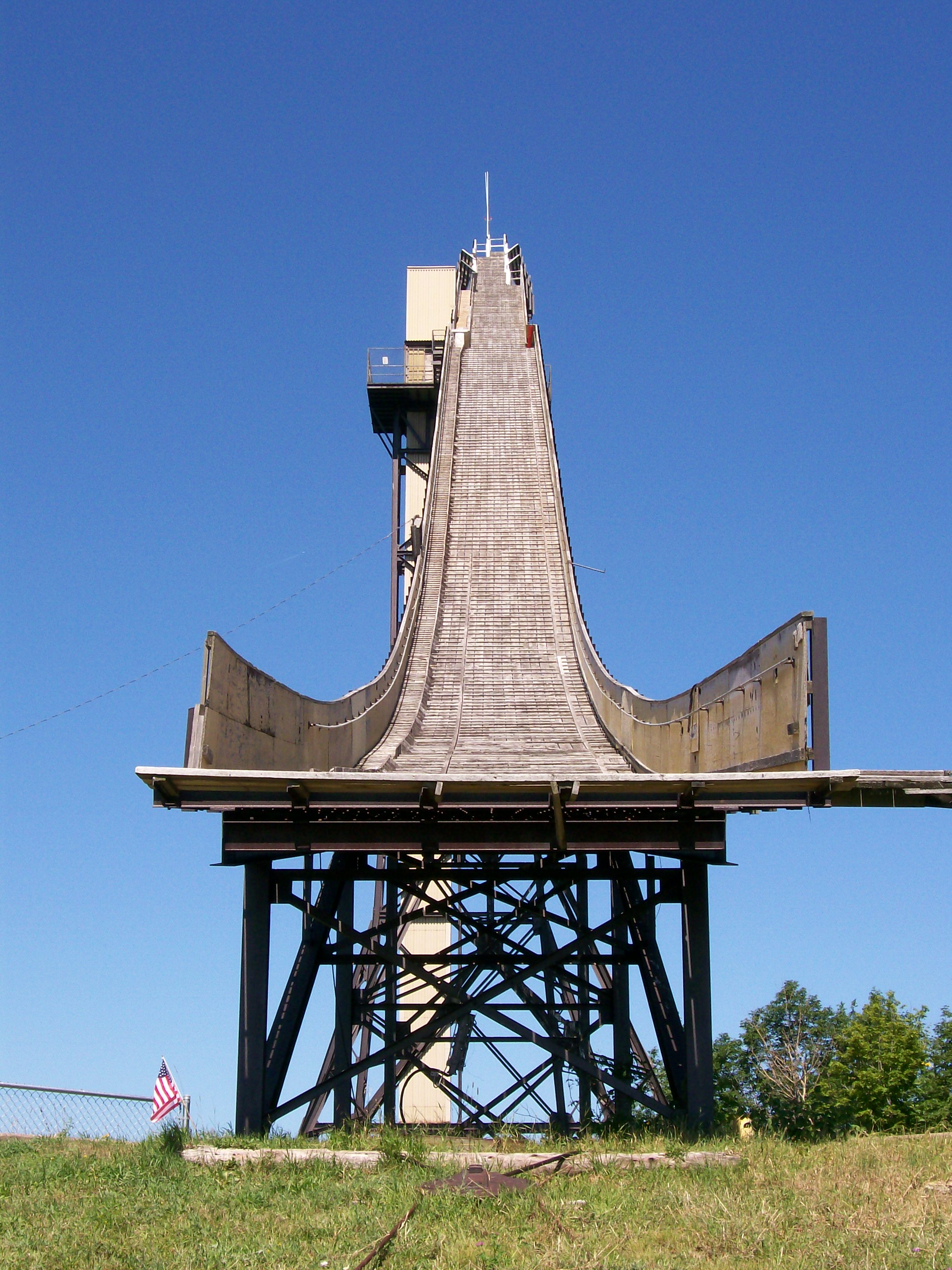 Copper Peak Ski Jump, from the bottom of the jump (summer)